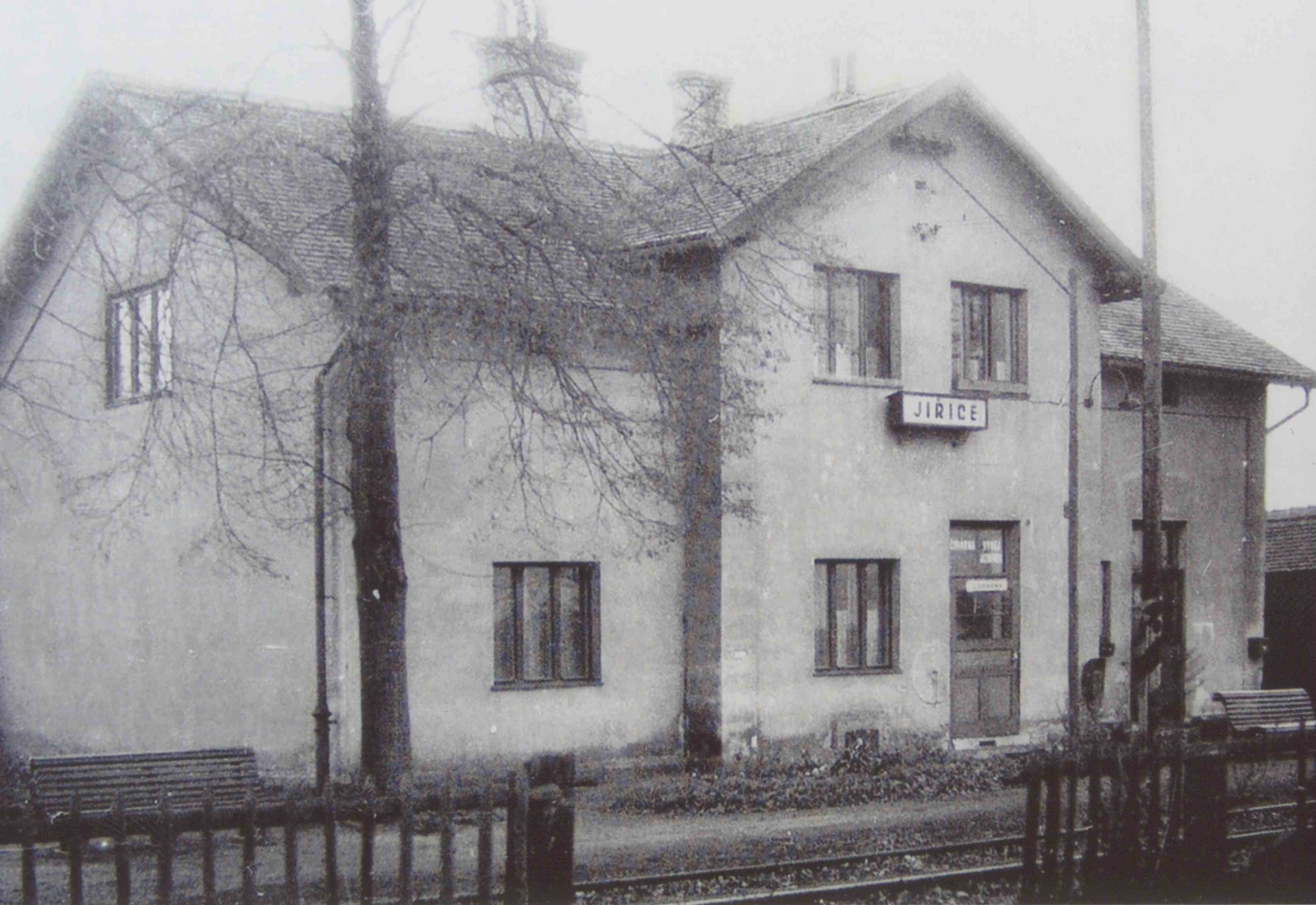 station Jirice